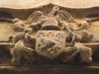 Coat of arms in the façade of Cal Gallisà in Riudoms, which it is supposed to be from the family of the Nebot brothers.